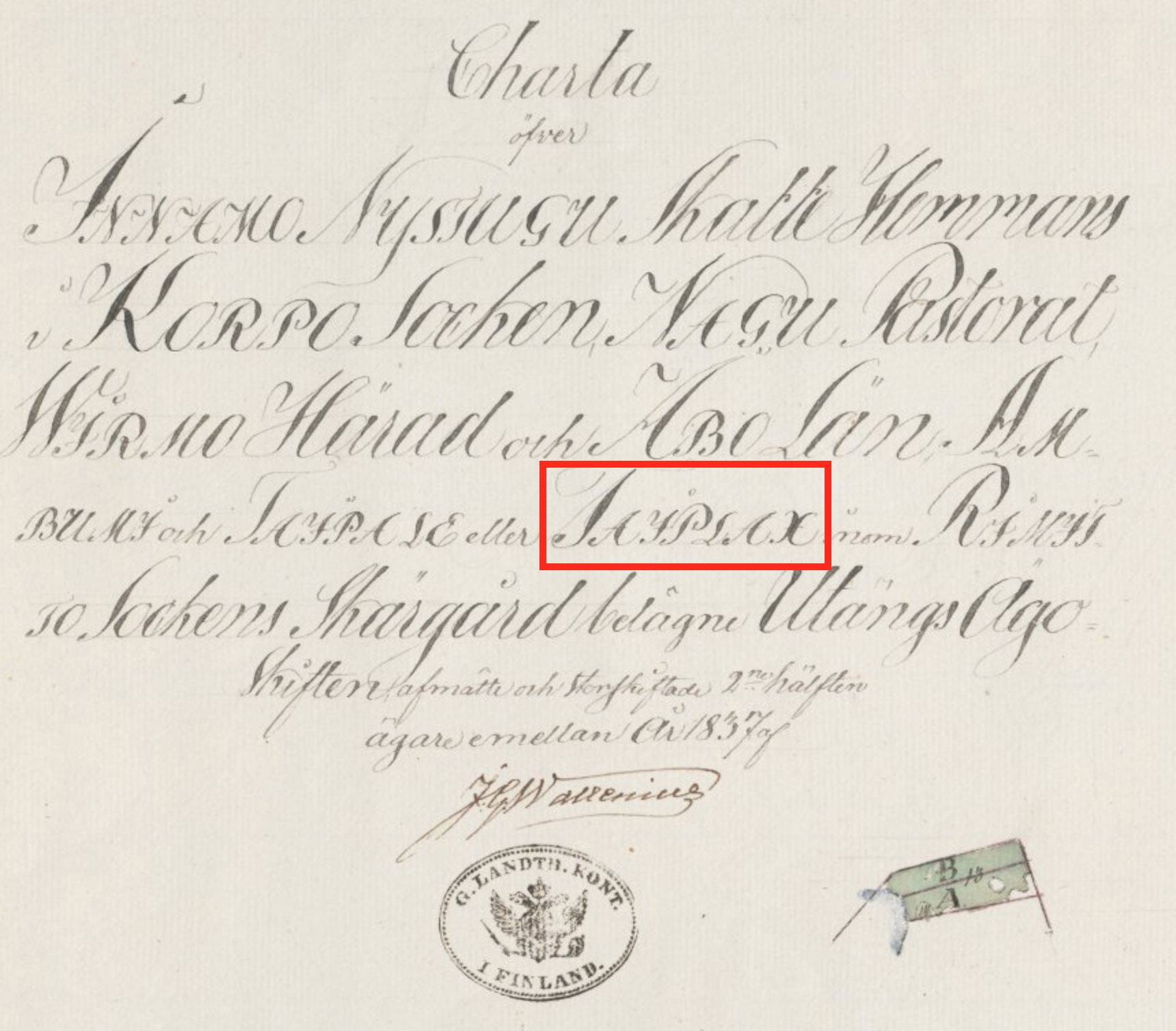 Excerpt from old map